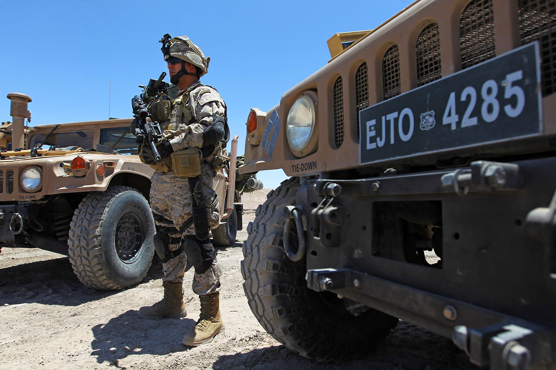 Huracan ech 2015